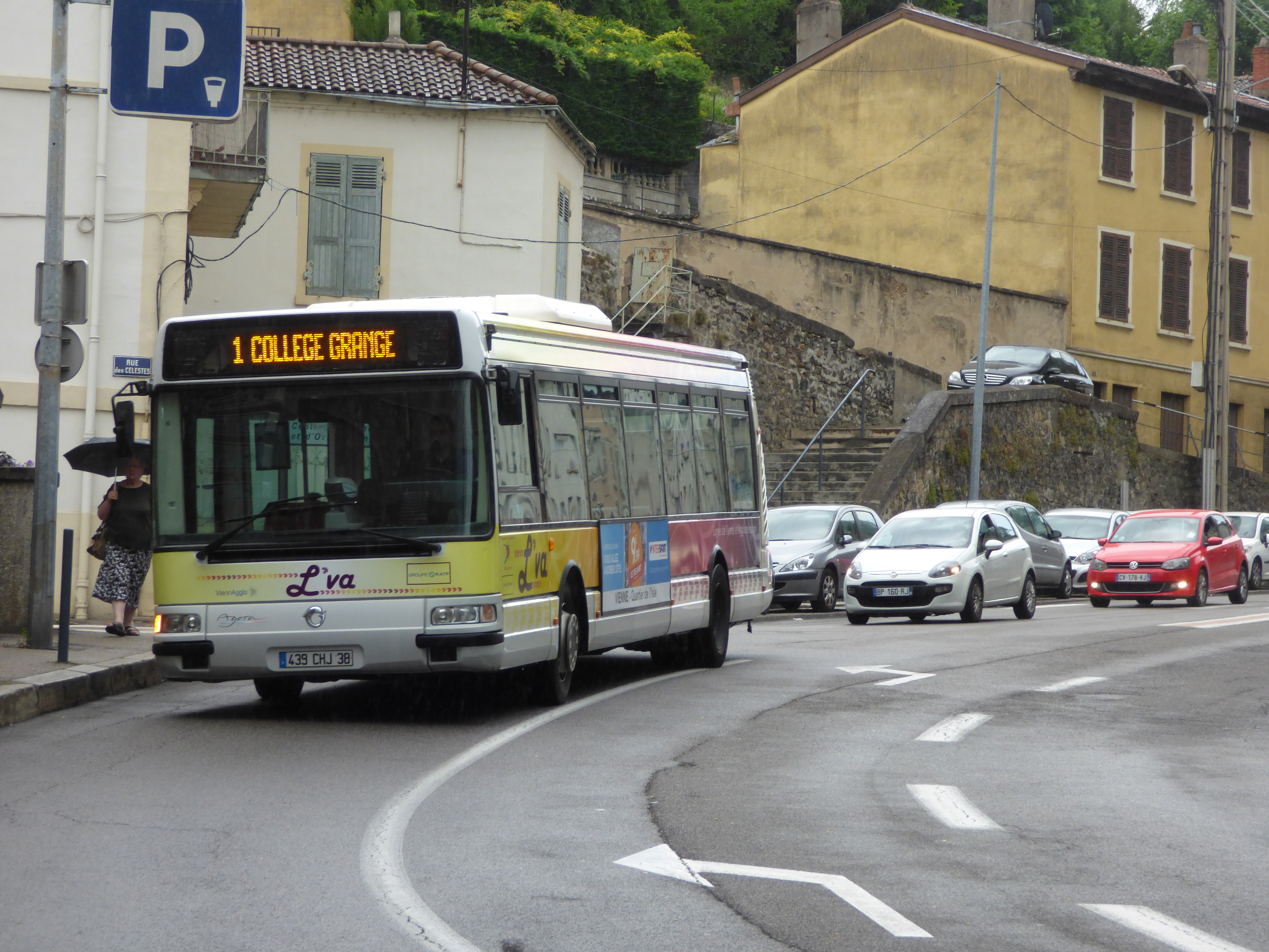 Buses in Vienne. Single deckers, they looked quite colourful. From near Rue des Celestes, while it was raining. Montée Saint-Marcel